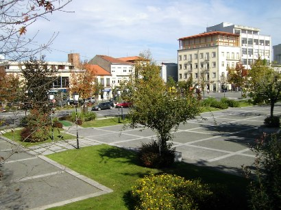 Praça 25 de Abril - Fafe (Portugal) Own picture taken in Fafe (Nov 2006), can be used anywhere, public domain.